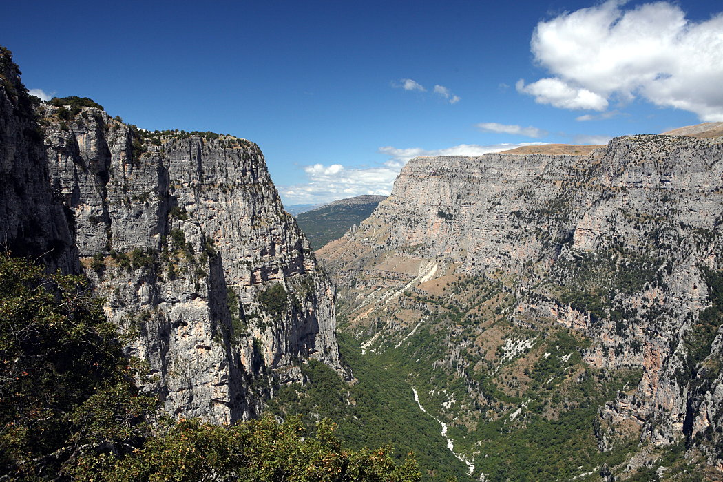 Vikos gorge from Oxia, near Monodendri village, region of Zagoria, prefecture of Ioannina, Greece.